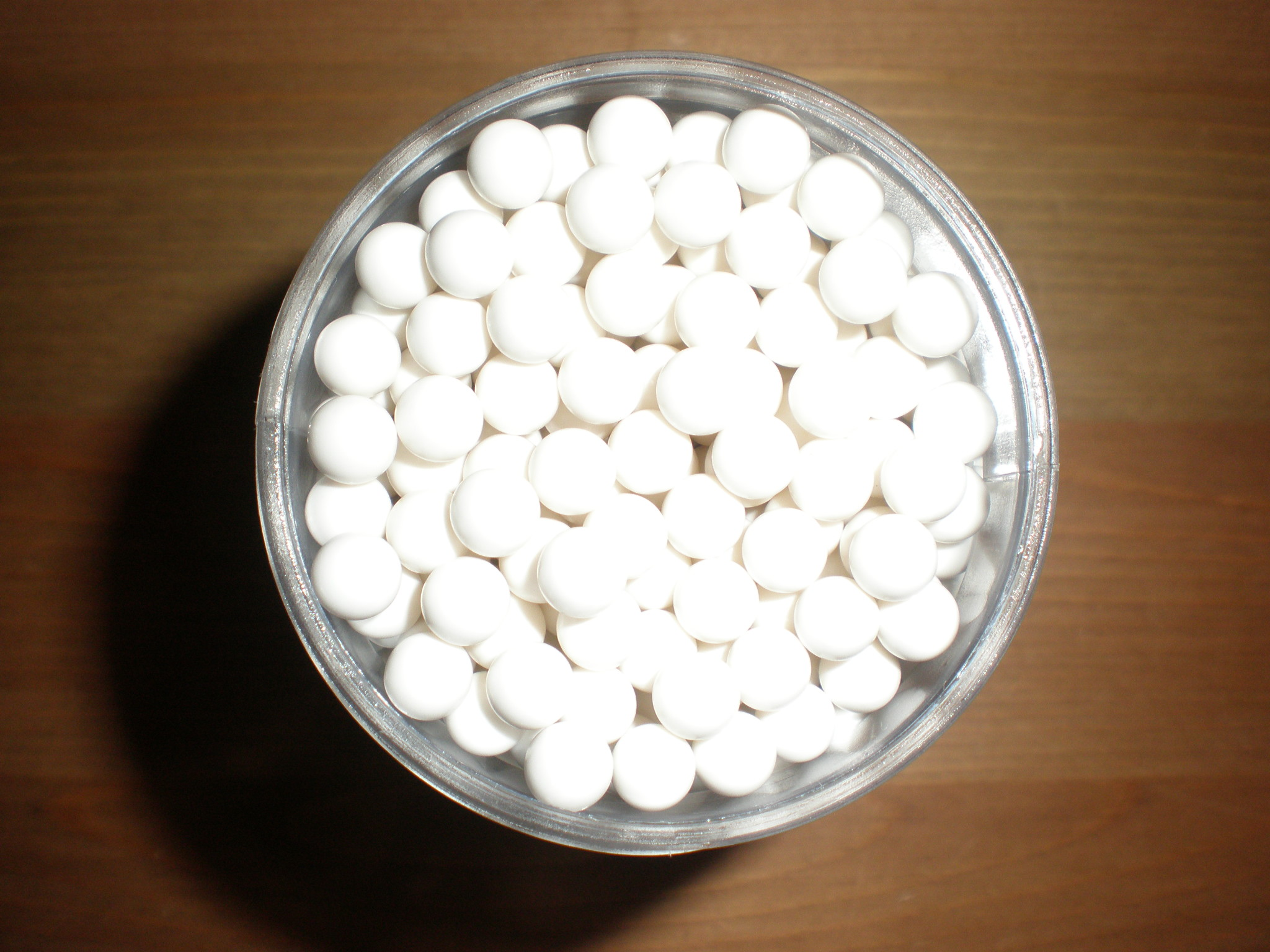 An open bottle of 500 airsoft 25g BBs